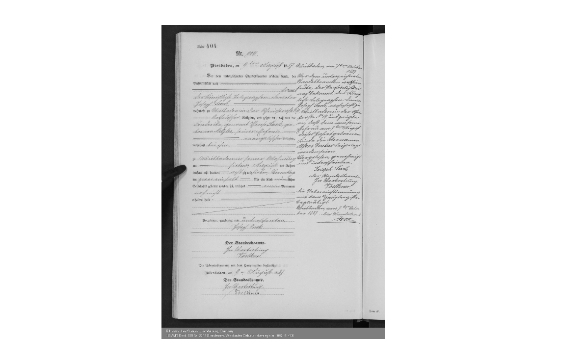 Birth Certificate of the lawyer Alfons Sack (1887-1944), who became famous as the defence attorney of Marinus van der Lubbe during the Reichstag fire trial of 1933.